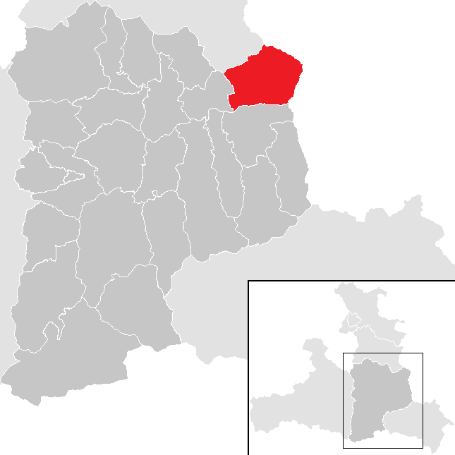 District Sankt Johann im Pongau